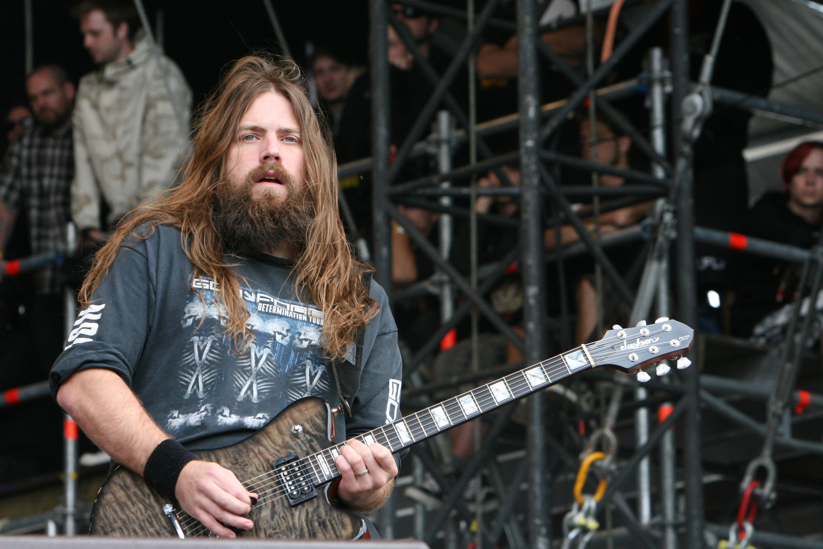 Mark Morton, Lamb of God, at With Full Force 2007